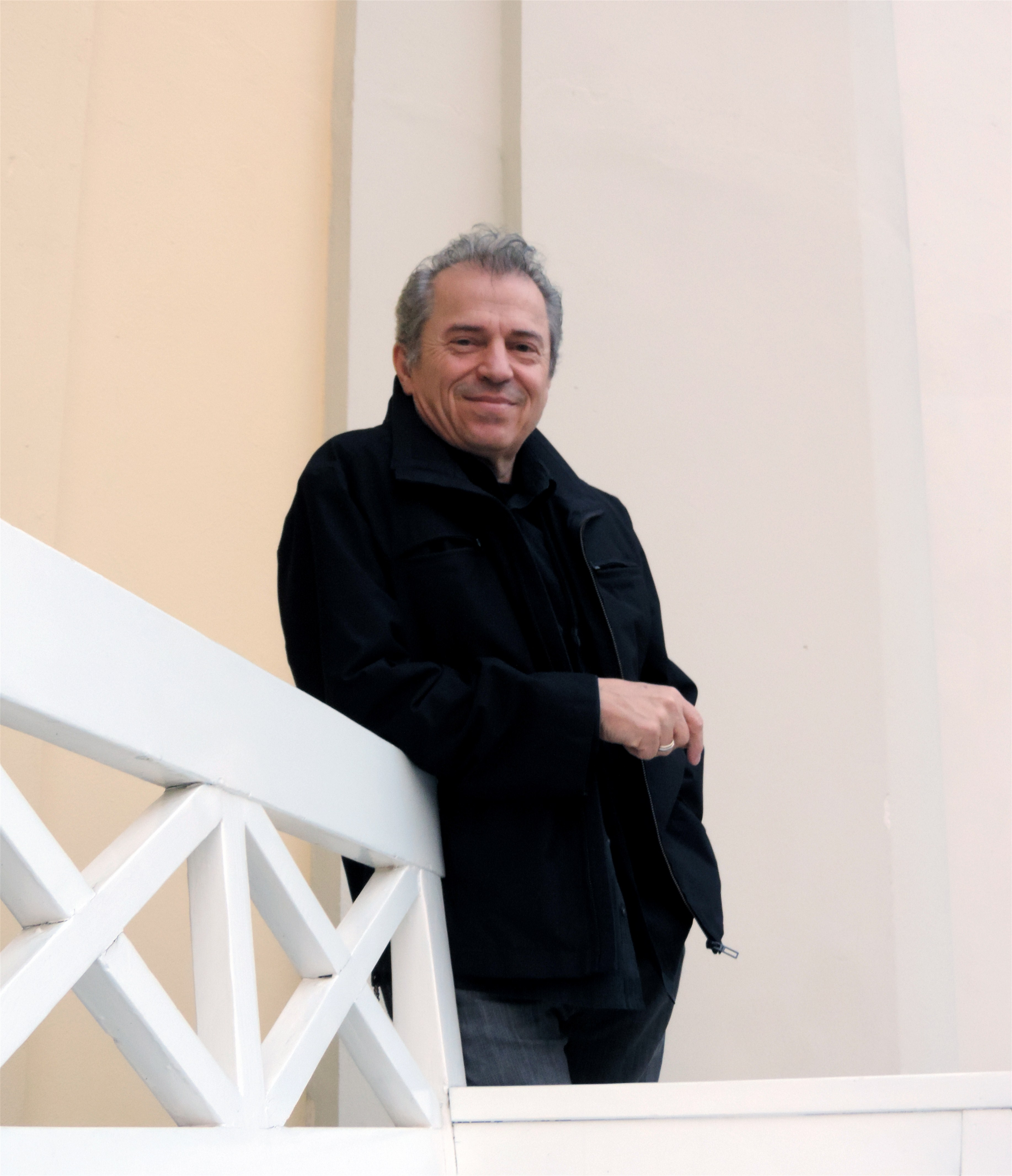 Guenther Sigl